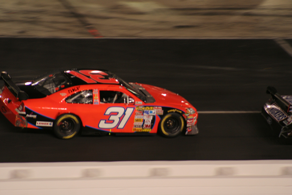 NASCAR driver Jeff Burton at Bristol Motor Speedway in the August raceJeff Burton